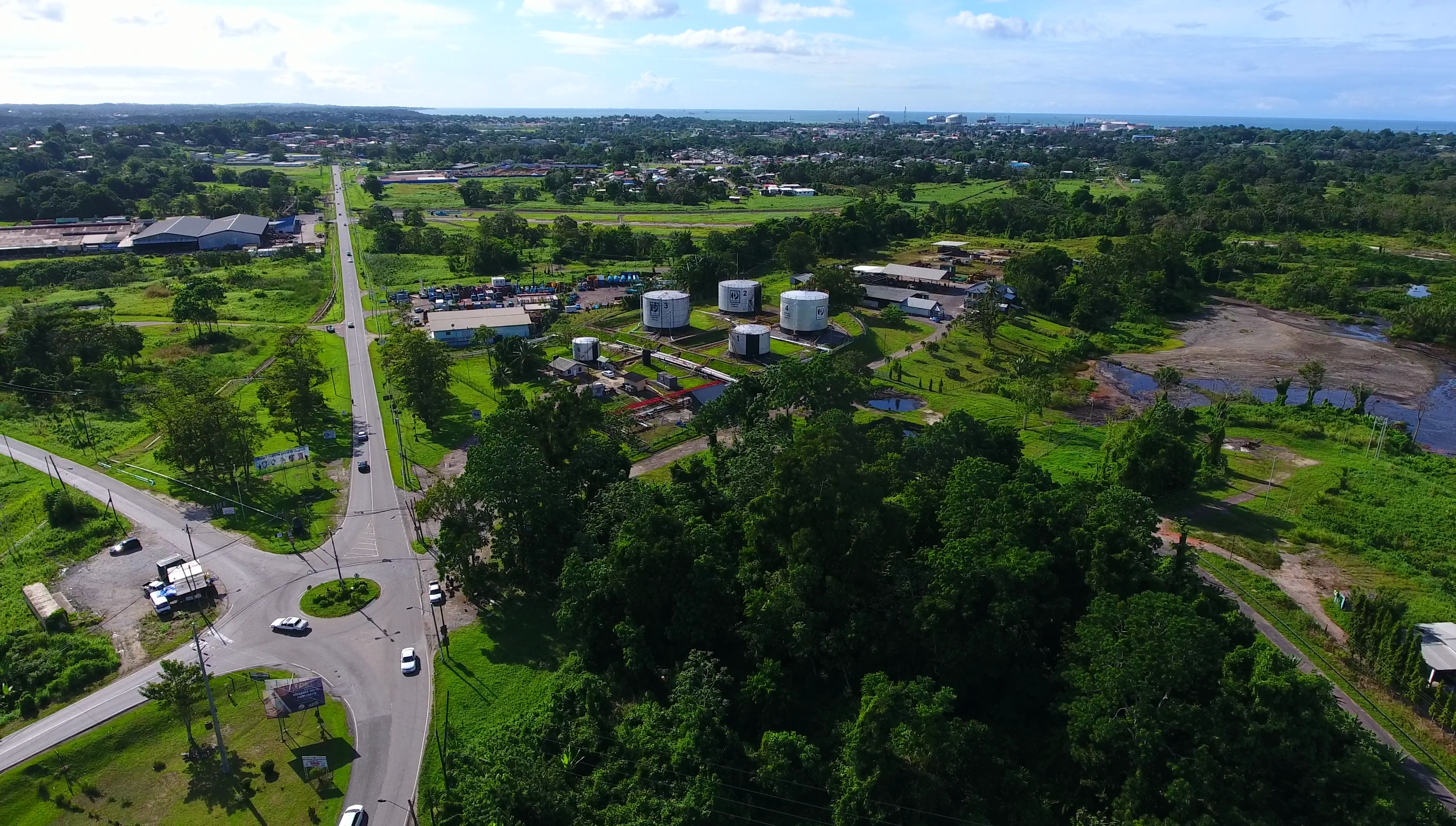 Point Fortin, Trinidad and Tobago. The city is in the background. I couldn't get any closer for legal reasons (no fly zone). Photo taken as part of the Southern Trinidad Aerial Photo Project, a small project sponsored by WMDE. Drone used: DJI Phantom 4. Snapshot taken from video footage via VLC.